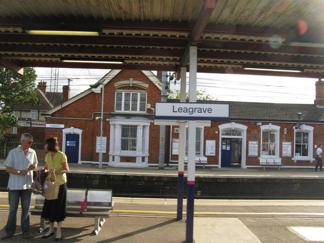 Leagrave Station One of many station buildings of this simple functional style on the old LMS line north from St Pancras to Bedford and beyond.